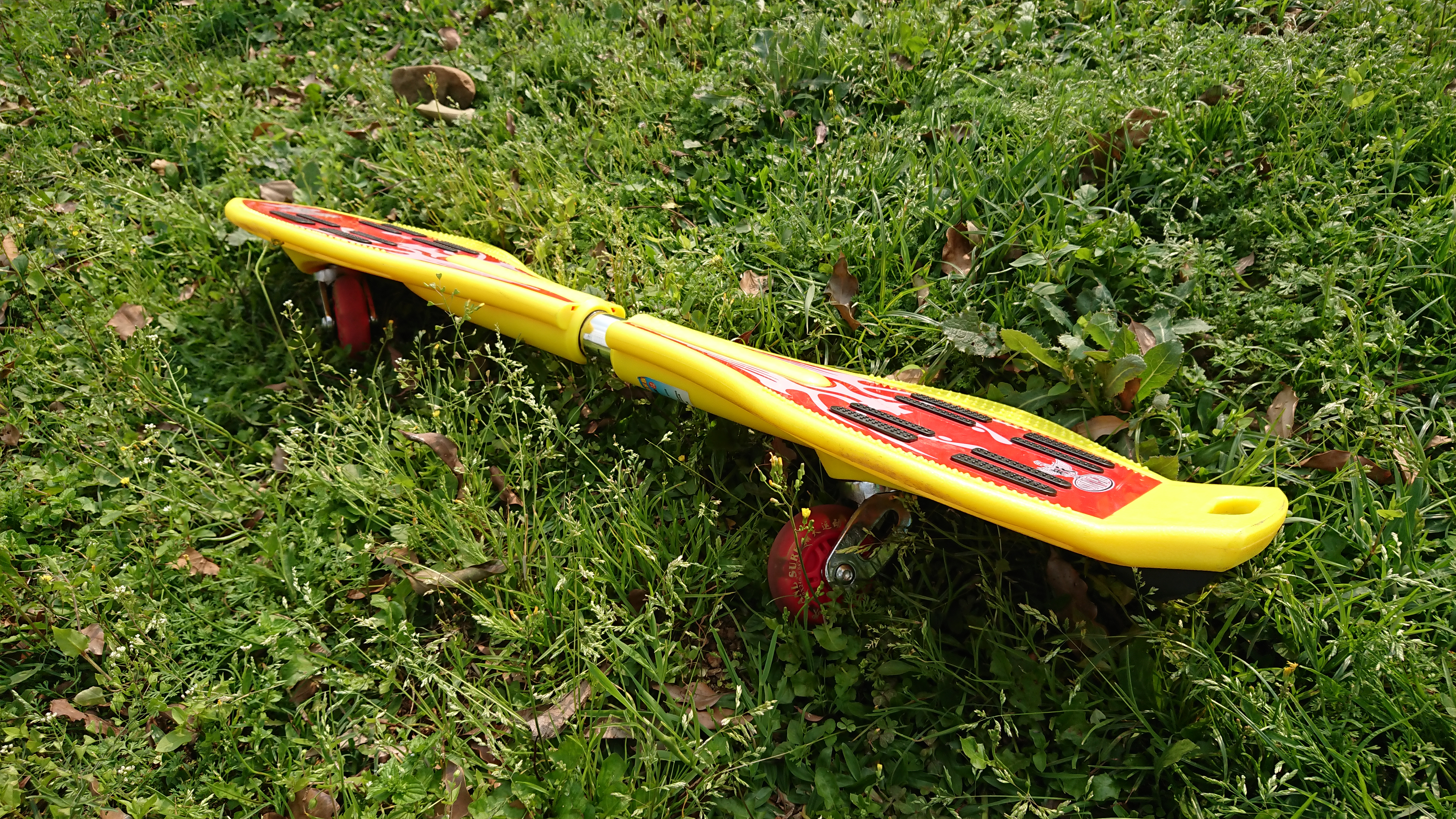 Snake Board-2